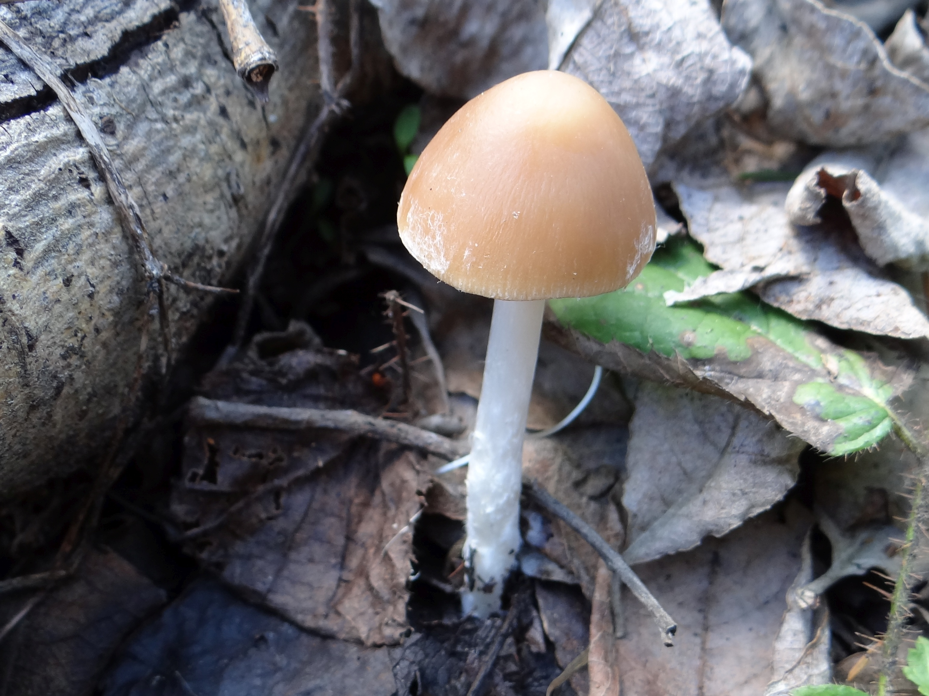 Psathyrella spadiceogrisea (location: Poland, Gorce, Magurki)